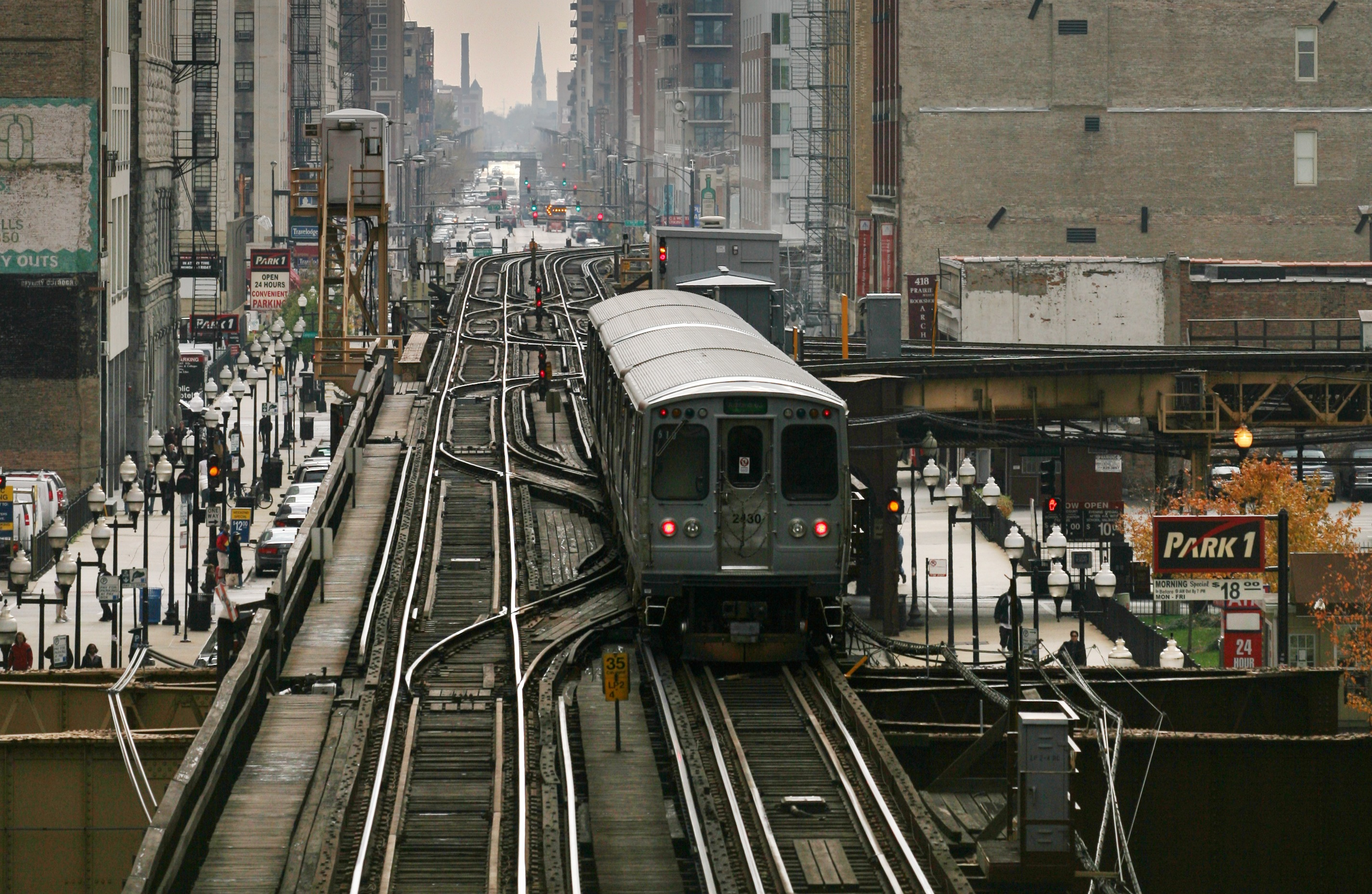 South east corner of the loop in Chicago